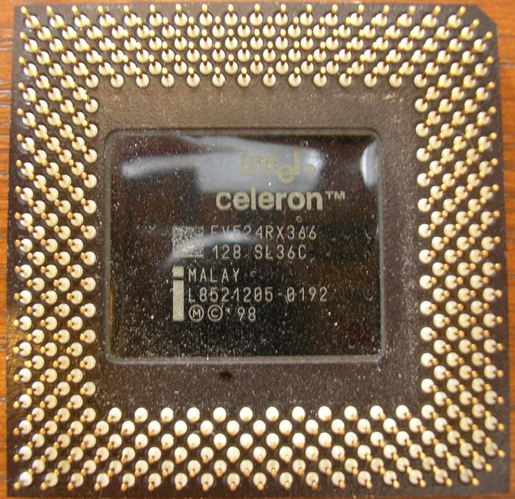 Backside of Socket 370 Celeron 366. Photograph taken by me on Saturday, January 21, 2006.